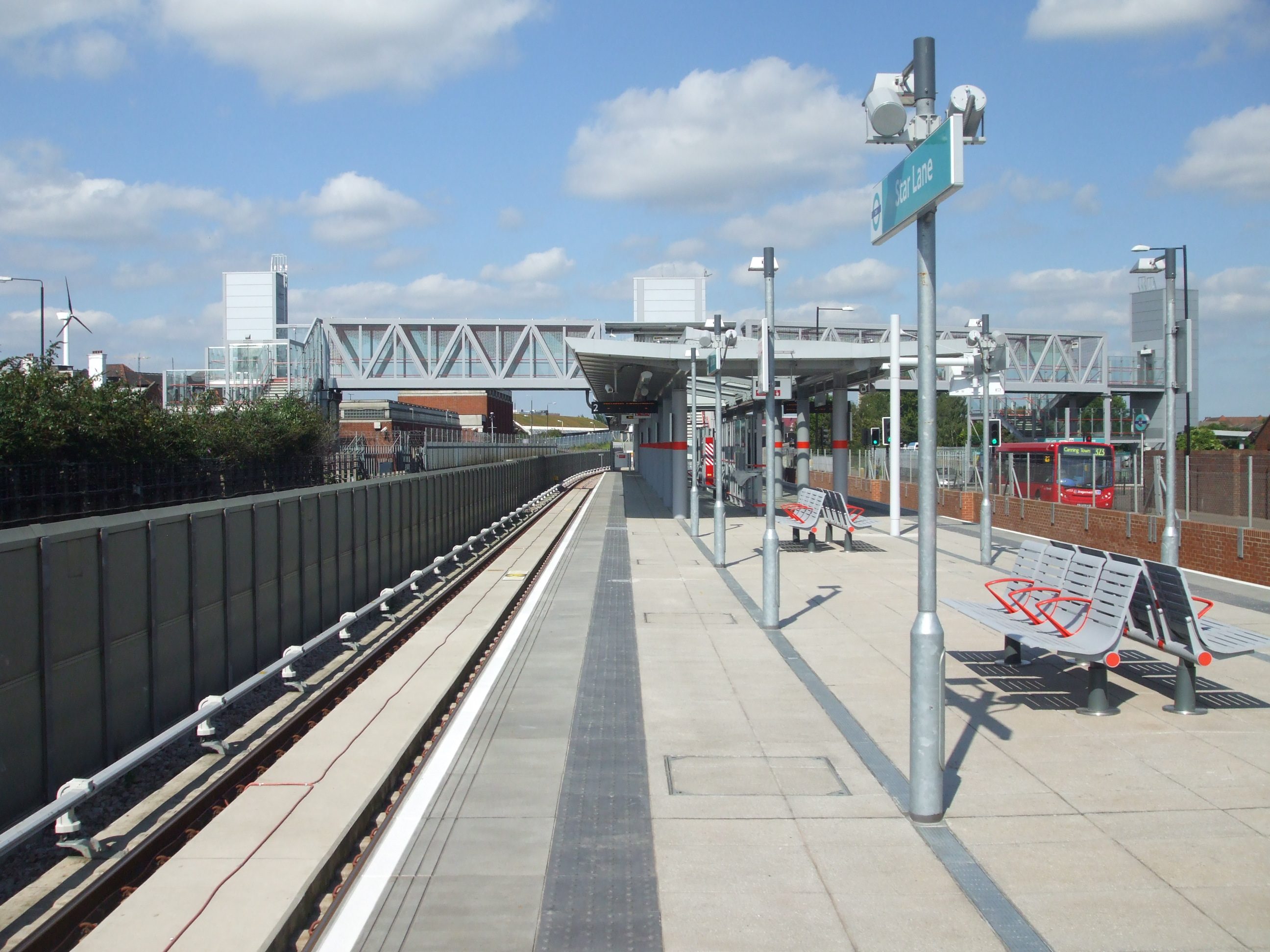 Star Lane DLR station northbound platform looking north, soon after opening.